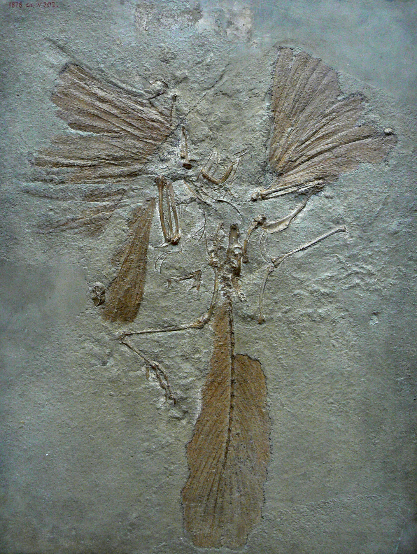 Cast of Archaeopteryx lithographica on exhibit at the French National Museum of Natural History (Paris), according to the original fossil preserved in the Natural History Museum (London).